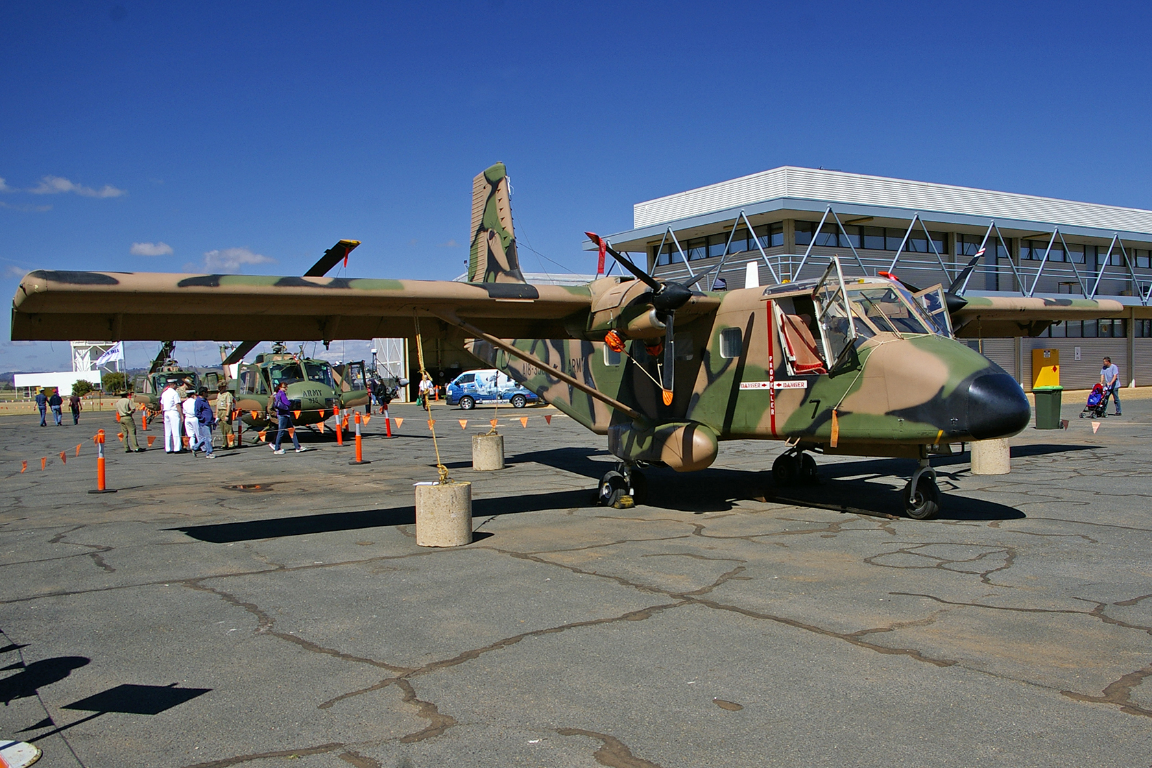 Australian Army (A18-306) GAF Nomad N22B on display at RAAF Base Wagga.